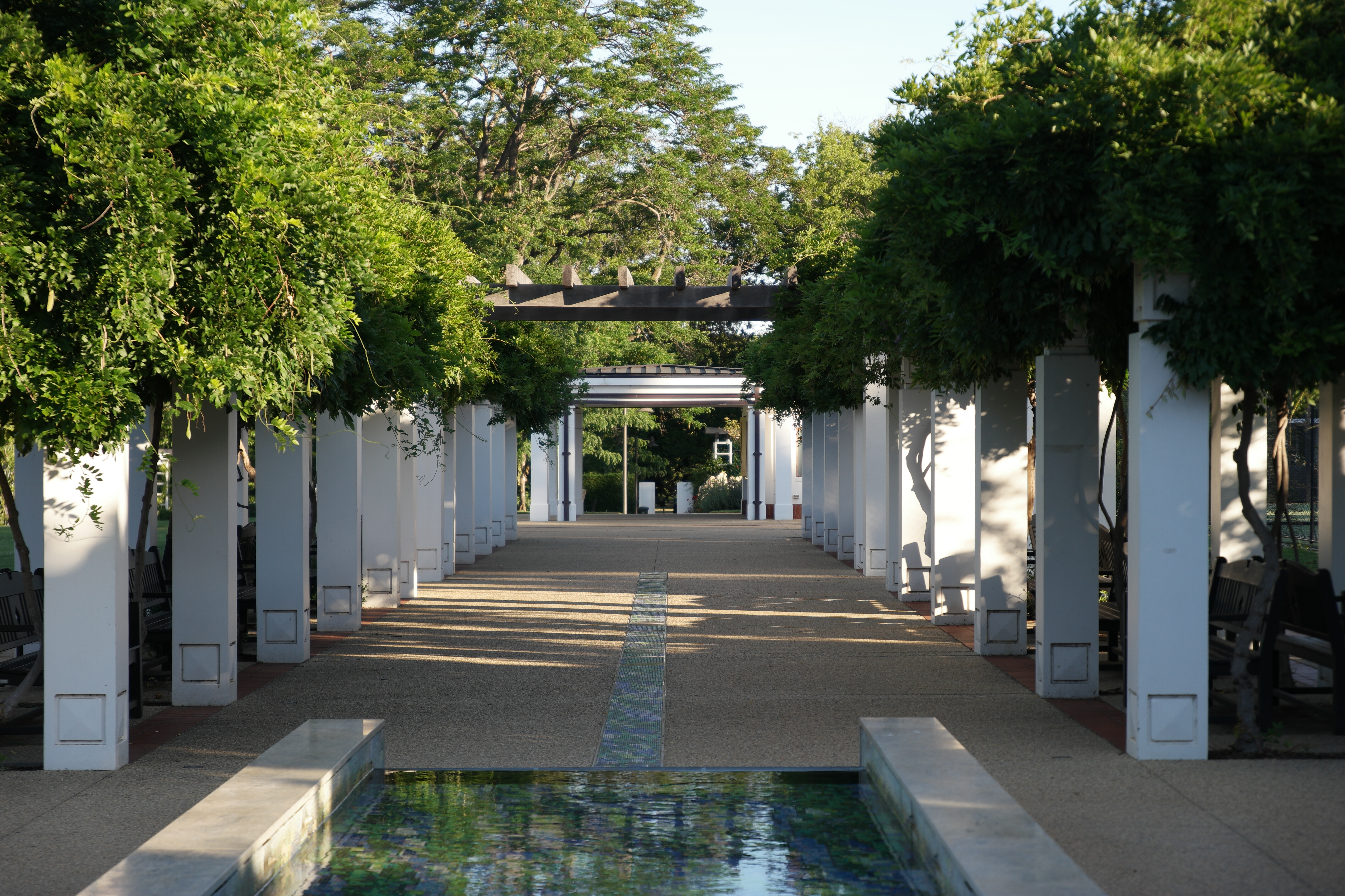 House of Representatives Garden within the Old Parliament House Gardens, Canberra, Australia.